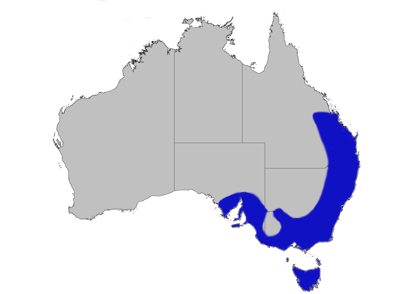 Distribution of the Superb Fairywren Malurus cyaneus